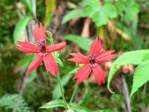 A pair of Fire Pinks (Silene virginica) near Mt, Mitchell, North Carolina, USA